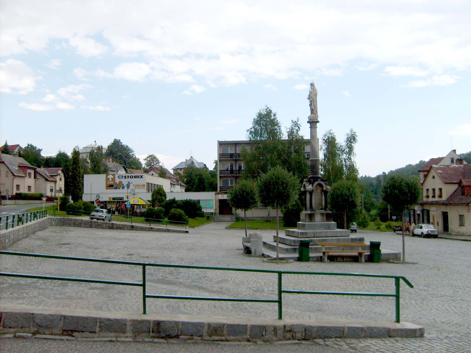 Collumn and the modern shopping store building on the square in Žulová.